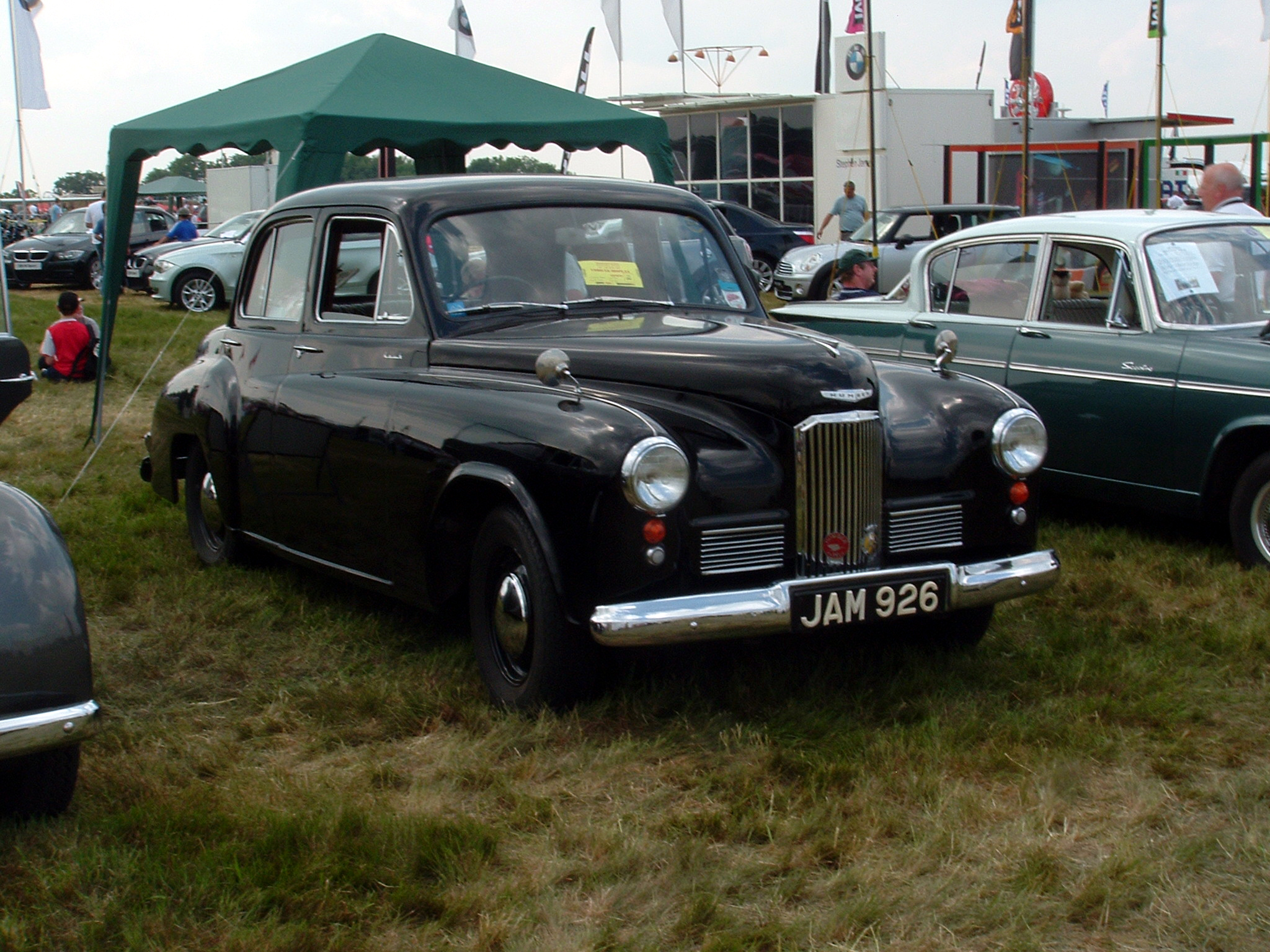 Humber Hawk 1952(DVLA) first registered 21August 1952, 2267ccat Biggin Hill air show May 2007